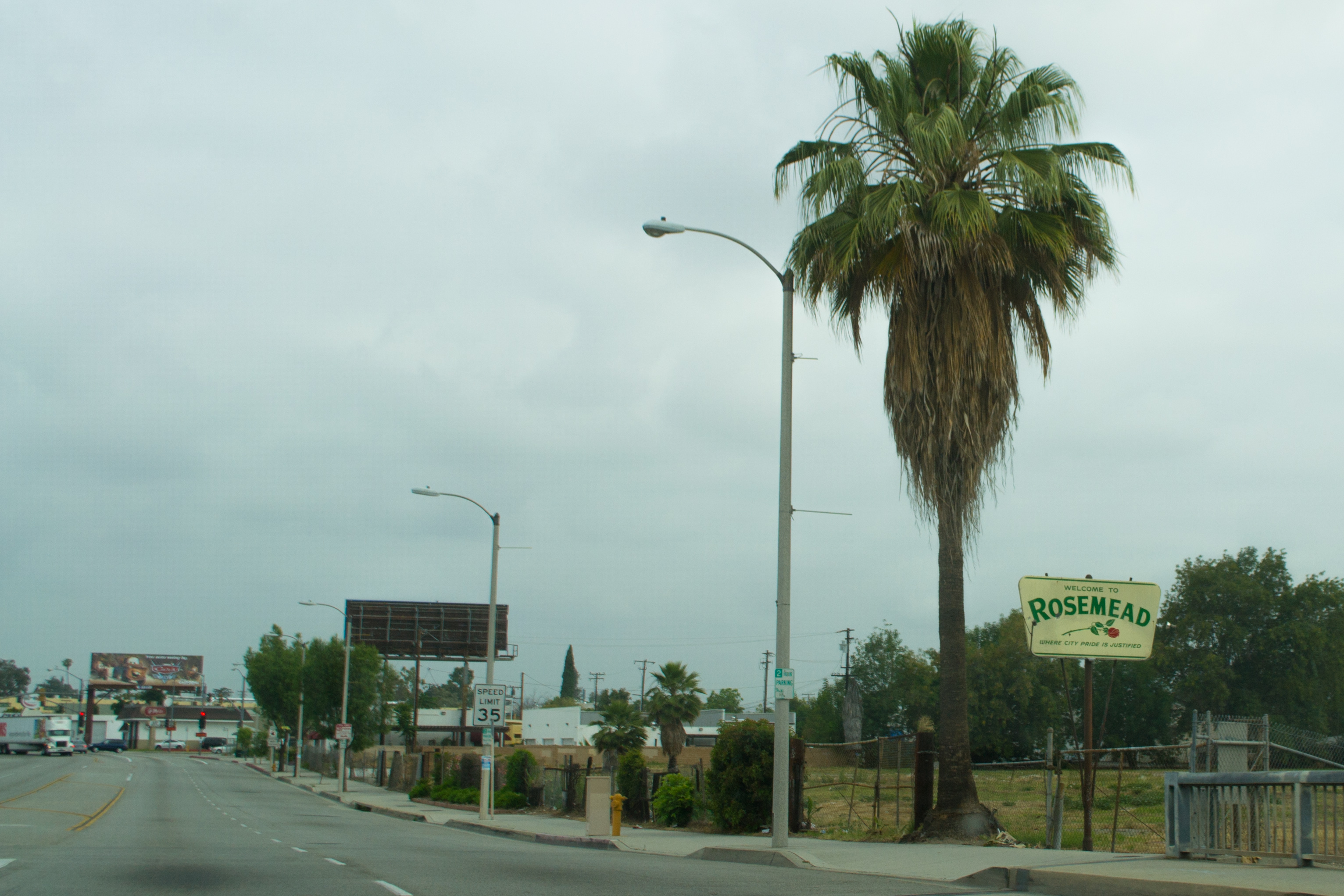 Valley Blvd. in Rosemead, California